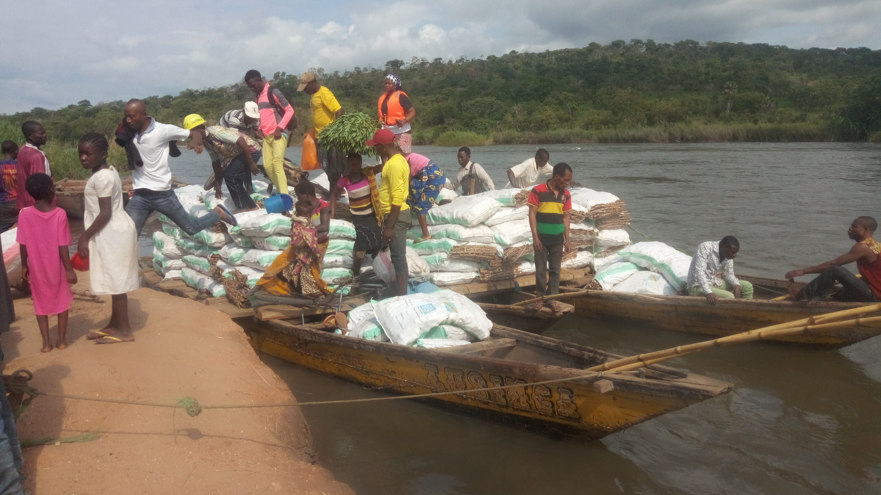 This is an image with the theme "Africa on the Move or Transport" from: Democratic Republic of the Congo